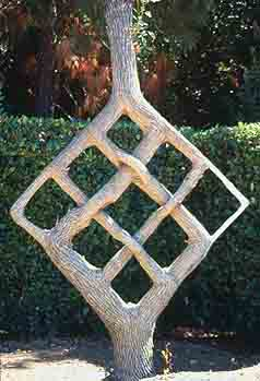 The Needle and Thread Tree grown by Axel Erlandson for his roadside attraction called "The Tree Circus". The tree is now located in Gilroy Gardens in Californa U.S.A. today (2010).